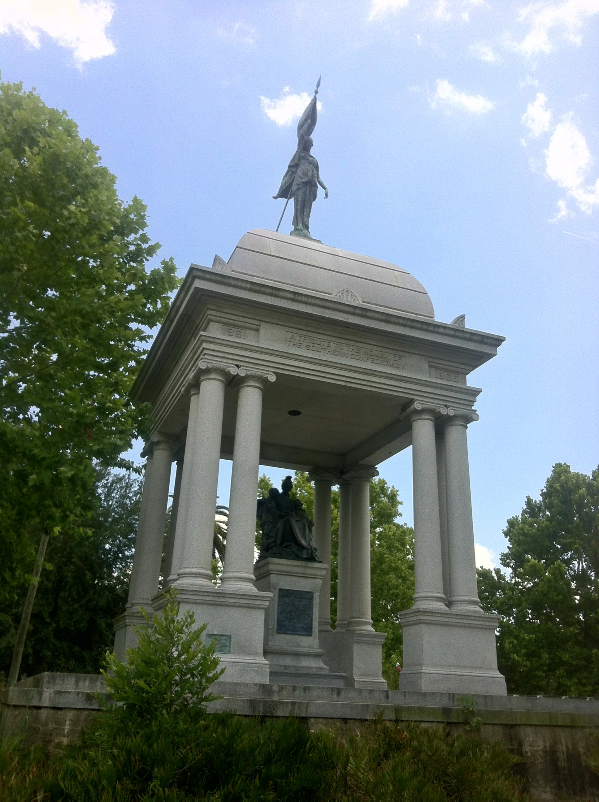 Monument in honor of the women of the Confederacy.